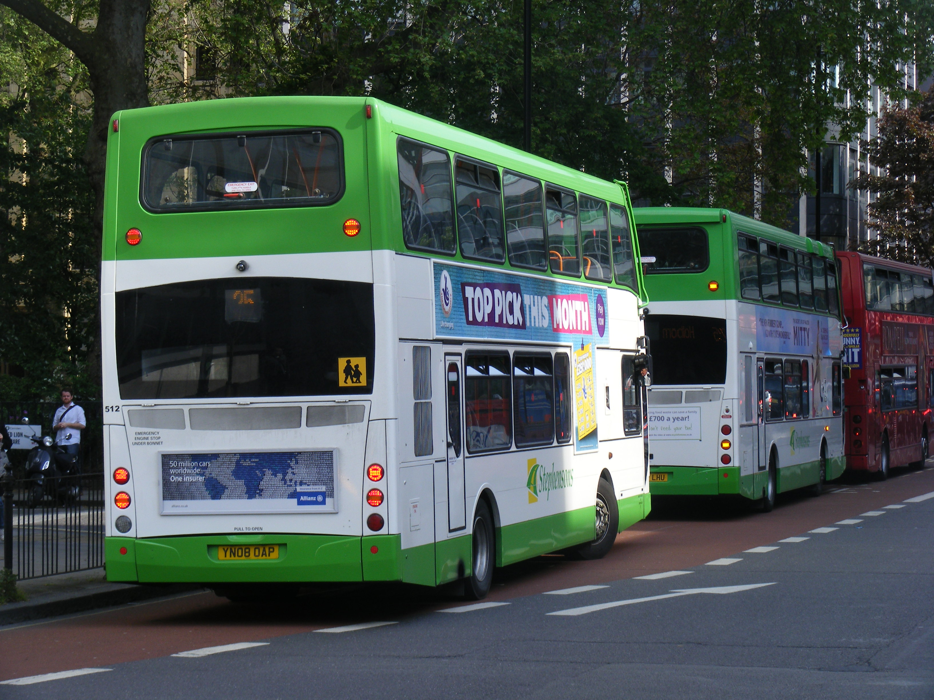 Stephensons Route 25 Stephensons Route 25 Yn08 OAP